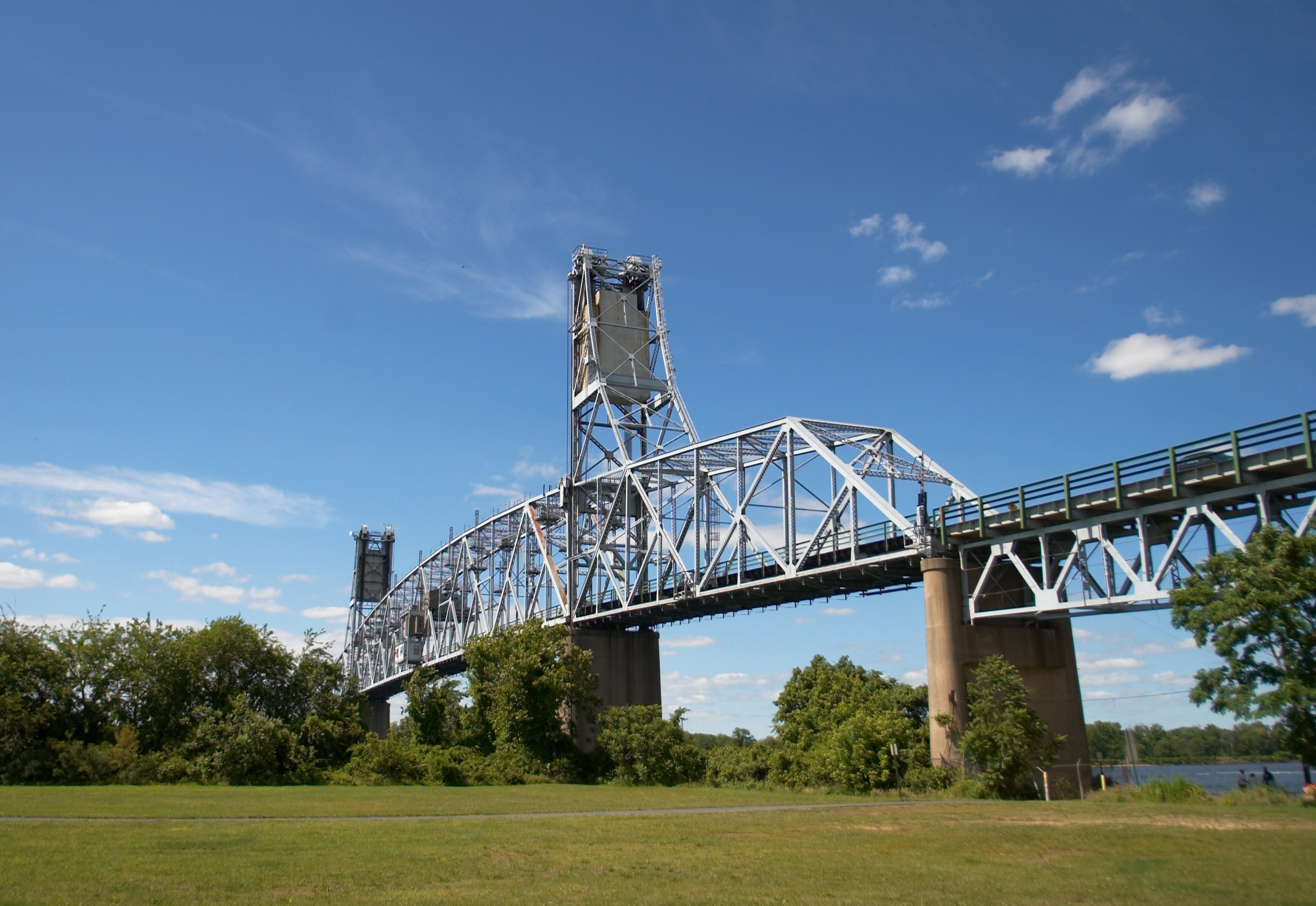 Vertical lift bridge over the Delaware River. Toll bridge between Bucks County, Pennsylvania and Burlington County, New Jersey.